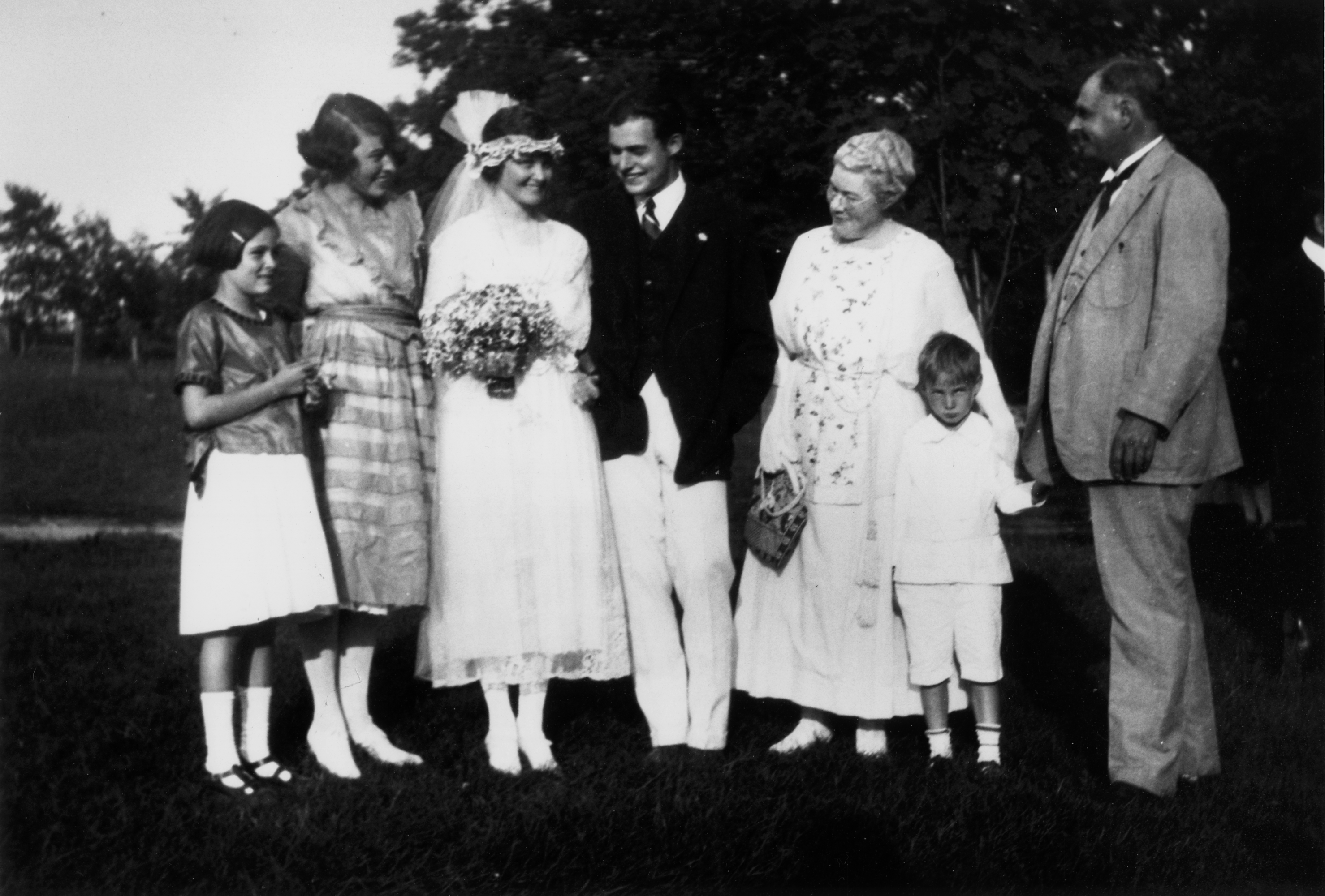 Photograph of Ernest Hemingway when he married Hadley. Included in photo are Carol, Marcelline, Hadley, Ernest, Grace, Les, and C. E. Hemingway.